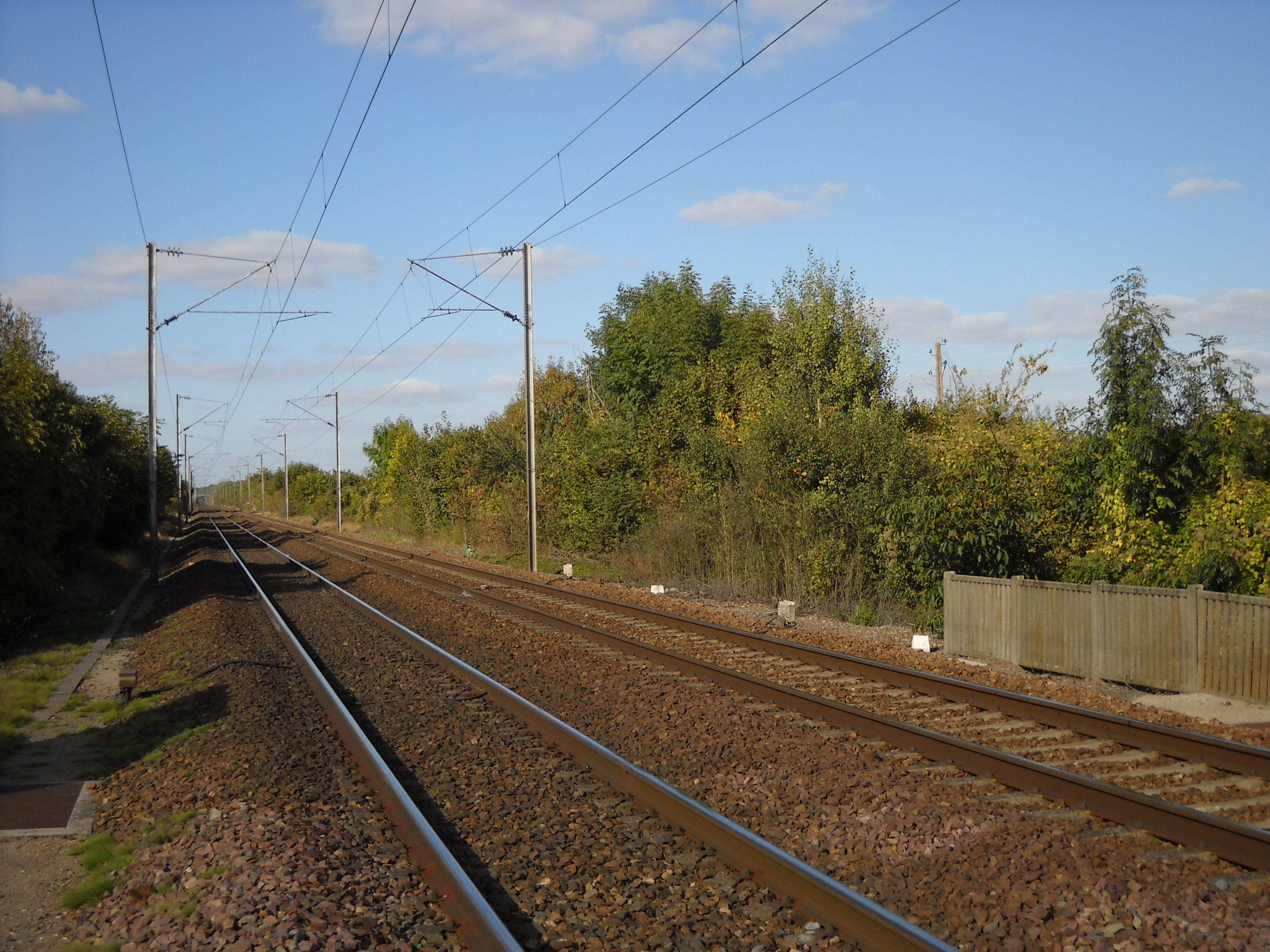 The Paris - Lille railway near Breuil-le-Vert, Oise, France.